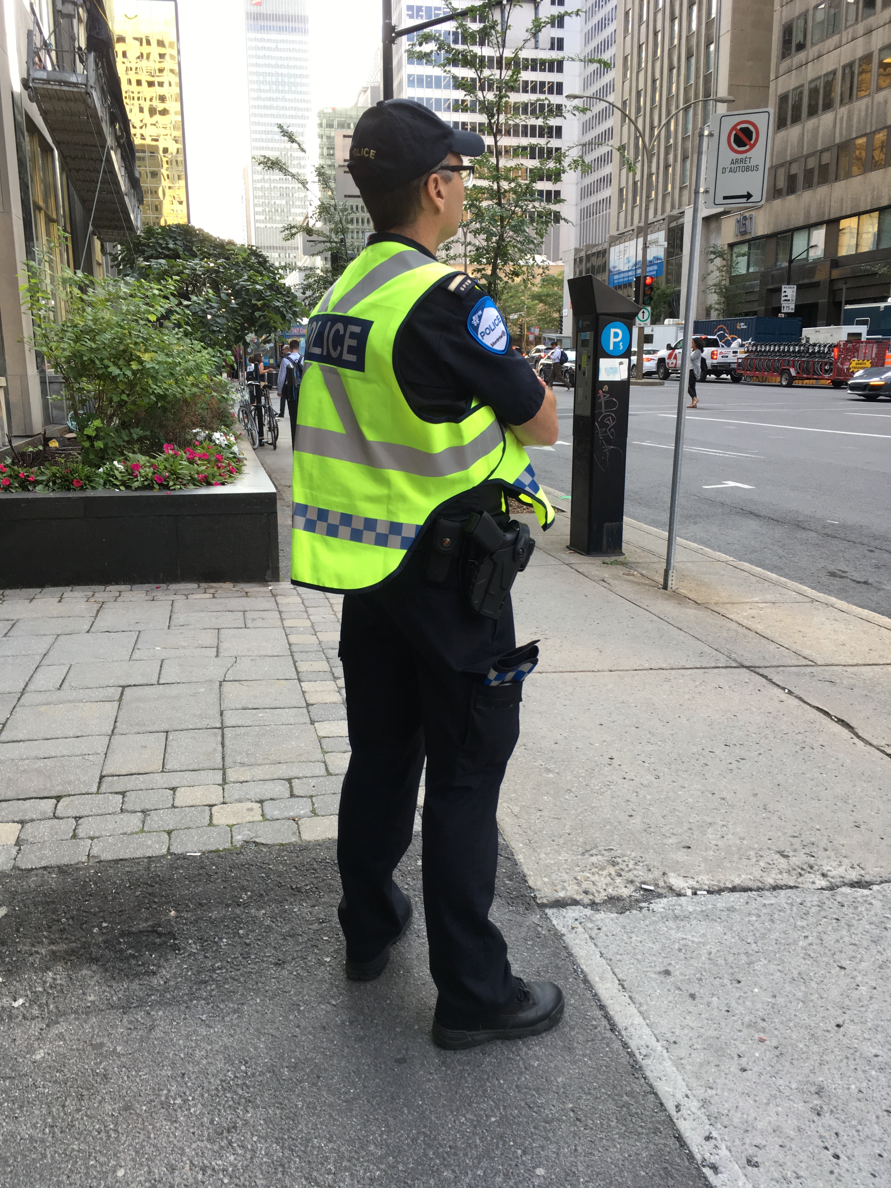 A Montreal police officer on street patrol in Downtown Montreal, Canada.